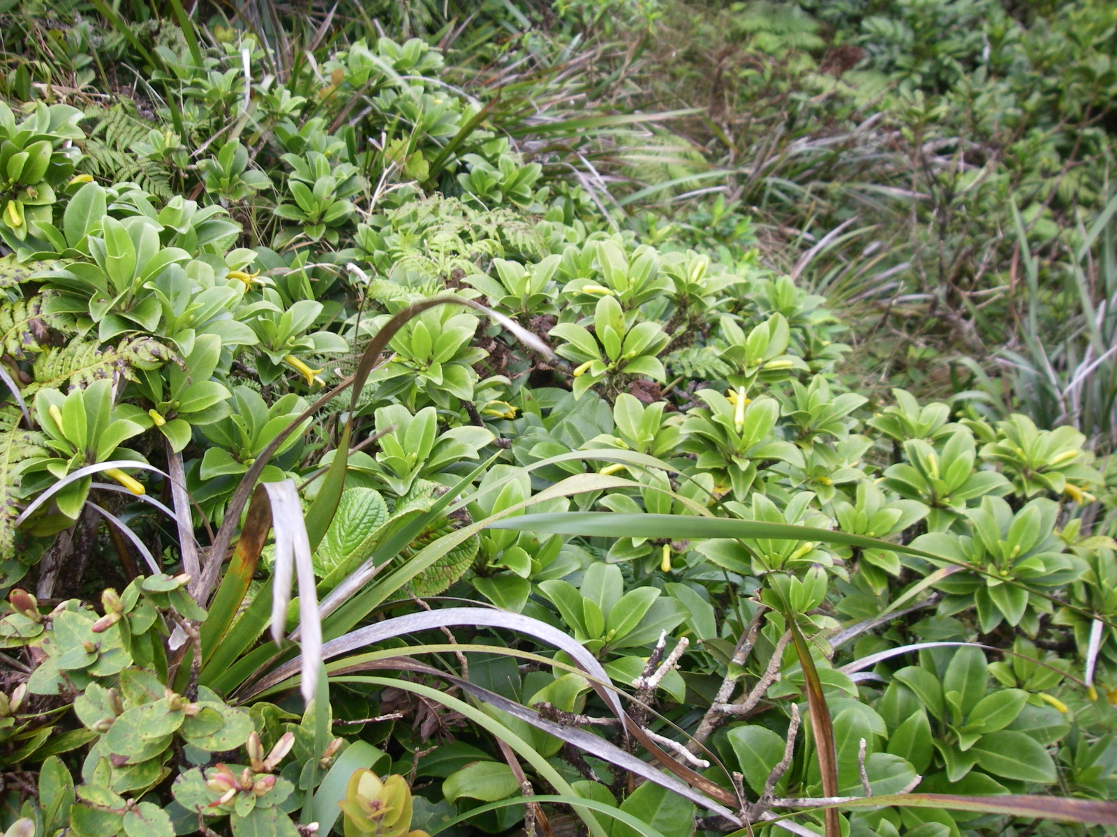 Scaevola glabra (yellow flowers) growing with Machaerina and Broussaisia and other plants near end of Poamoho trail, Oahu.